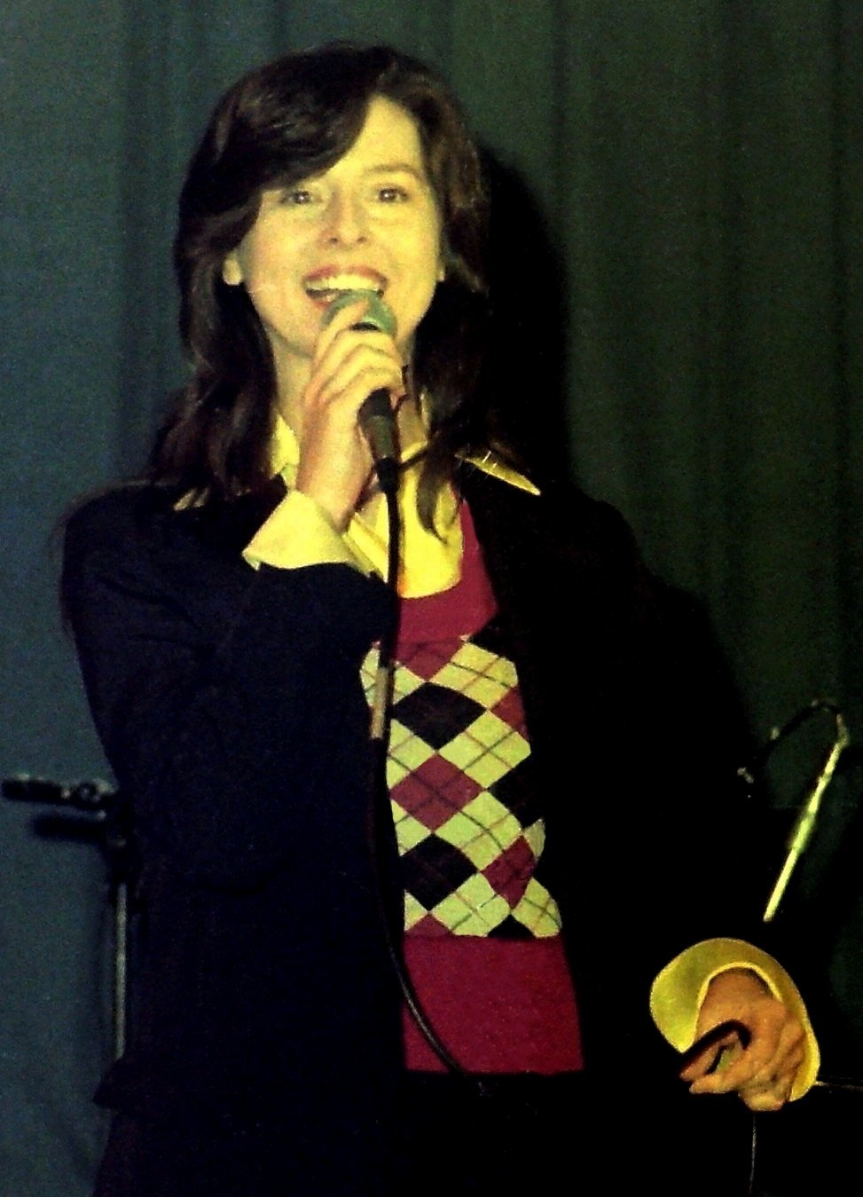 1977 - Linda Gail Lewis in Ludwigshafen, singing Country songs... performing Opener for her brother, Jerry Lee Lewis.